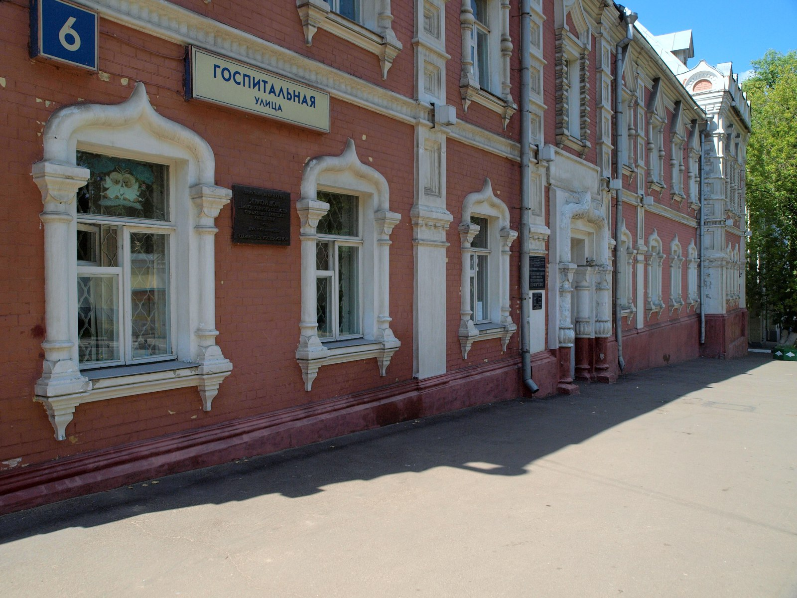 Gospitalnaya Street, Moscow.